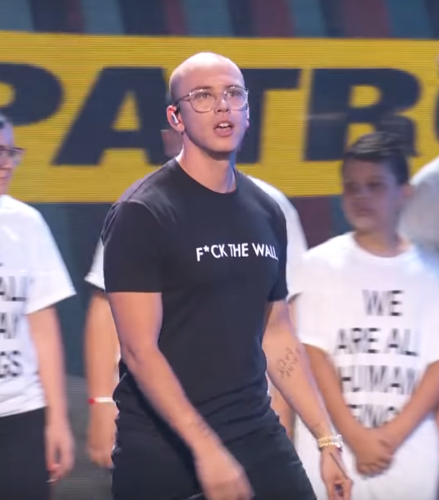 Logic and Ryan Tedder perform "One Day" at the 2018 Video Music Awards in New York City.